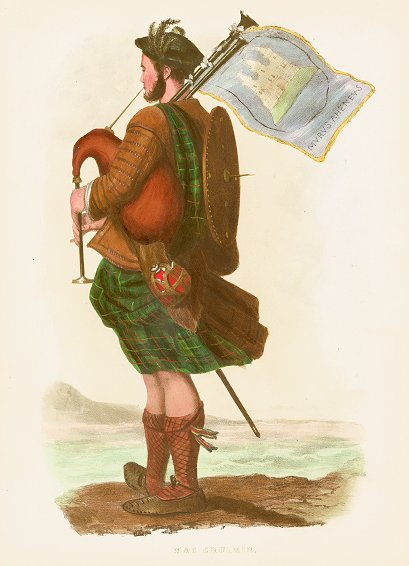 "Mac Cruimin". A plate illustrated by R. R. McIan, from James Logan's The Clans of the Scottish Highlands, published in 1845.